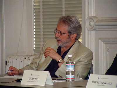 This is an image of Geoffrey Nunberg.